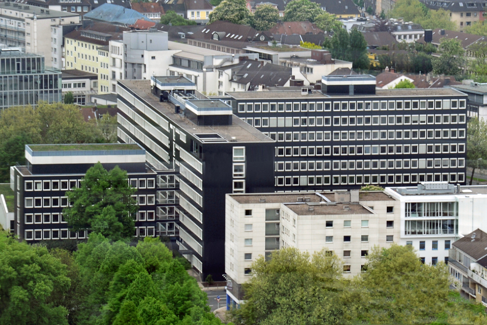 Verwaltungsgebäude Ruhrkohle in Essen